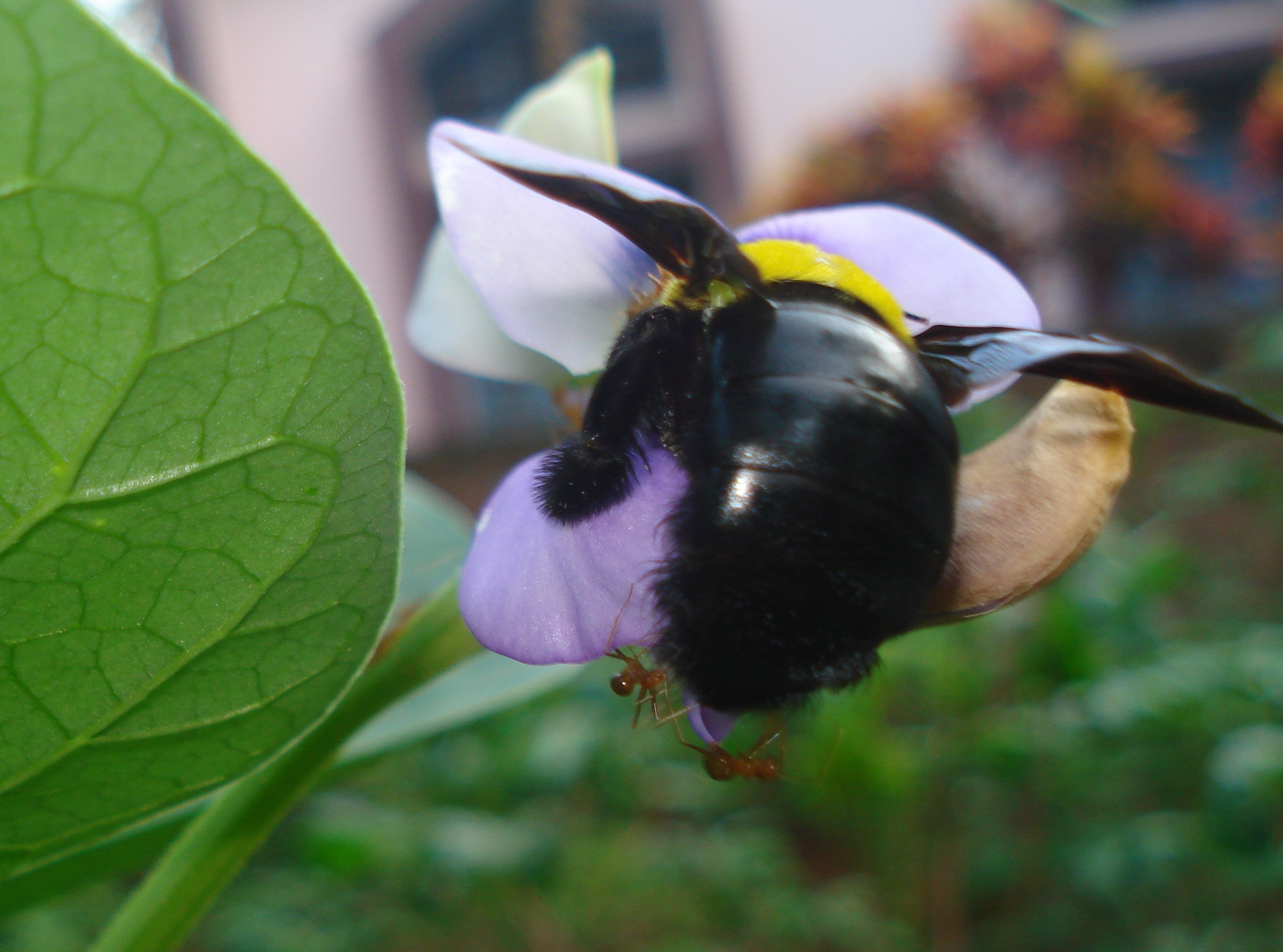 Black and Yellow coloured Beetle on Yard-long Bean Almost certainly not a beetle but a Hymenoptera (bee, bumblebee?)